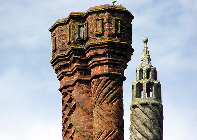 Thornbury Castle chimney detail: brick chimneys built in 1514, in Thornbury, near Bristol, England.